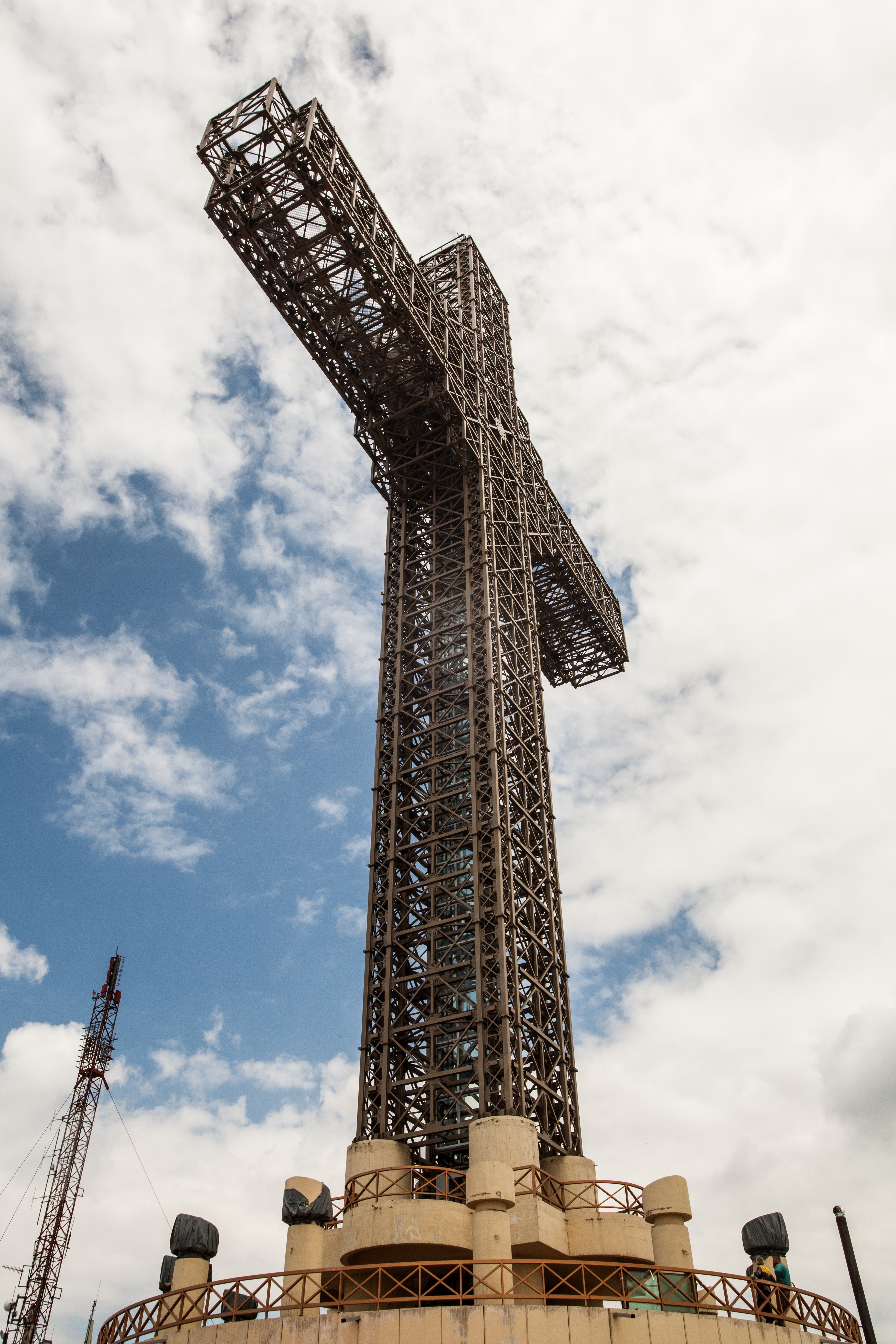 View of Millennium Cross, Skopje.